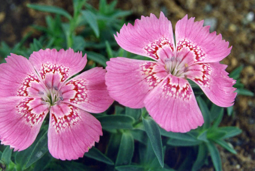 Dianthus callizonus